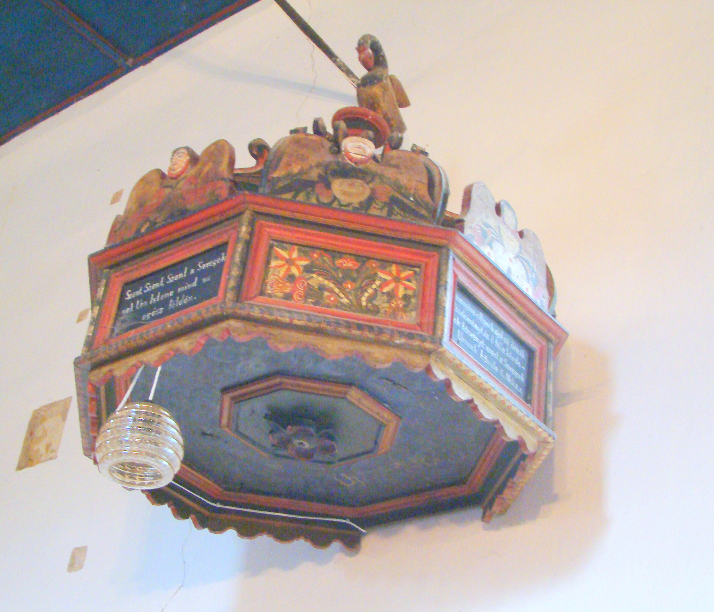 Fortified church in Cobor, Braşov County, Romania